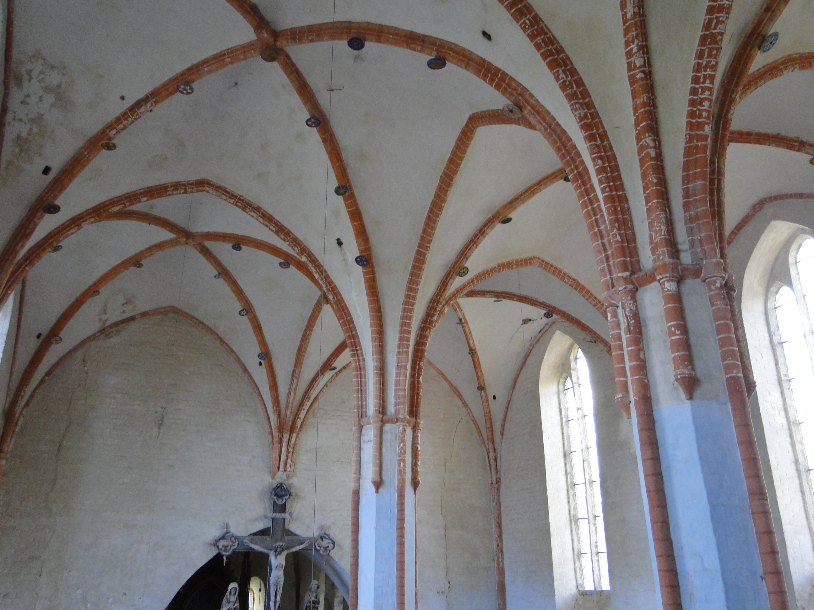 Church in Mestlin, district Ludwigslust-Parchim, Mecklenburg-Vorpommern, Germany Rib vault